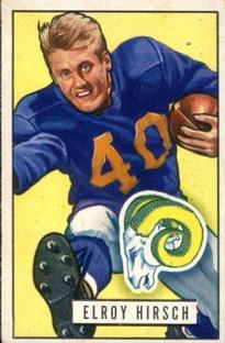 American football player Elroy Hirsch